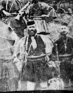 Adamandios Manos (Kokkinos or Dimbras)